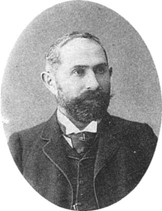 L. Riess, Professor of History.